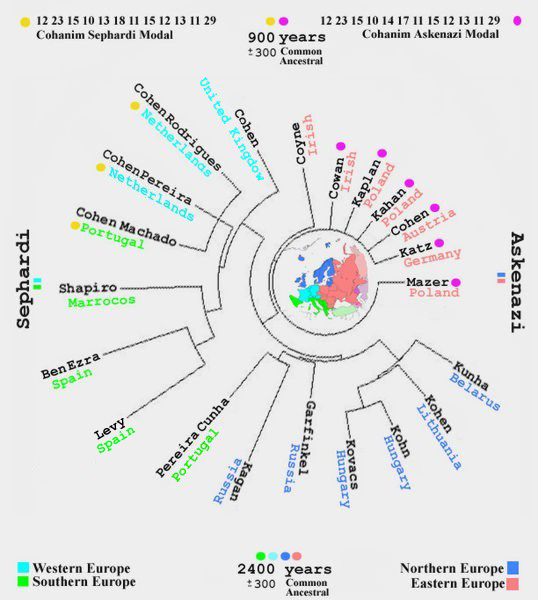 Haplotype tre diagram transferred from wikipedia and relating to Kohanim's Y-chromosomal Aaron.